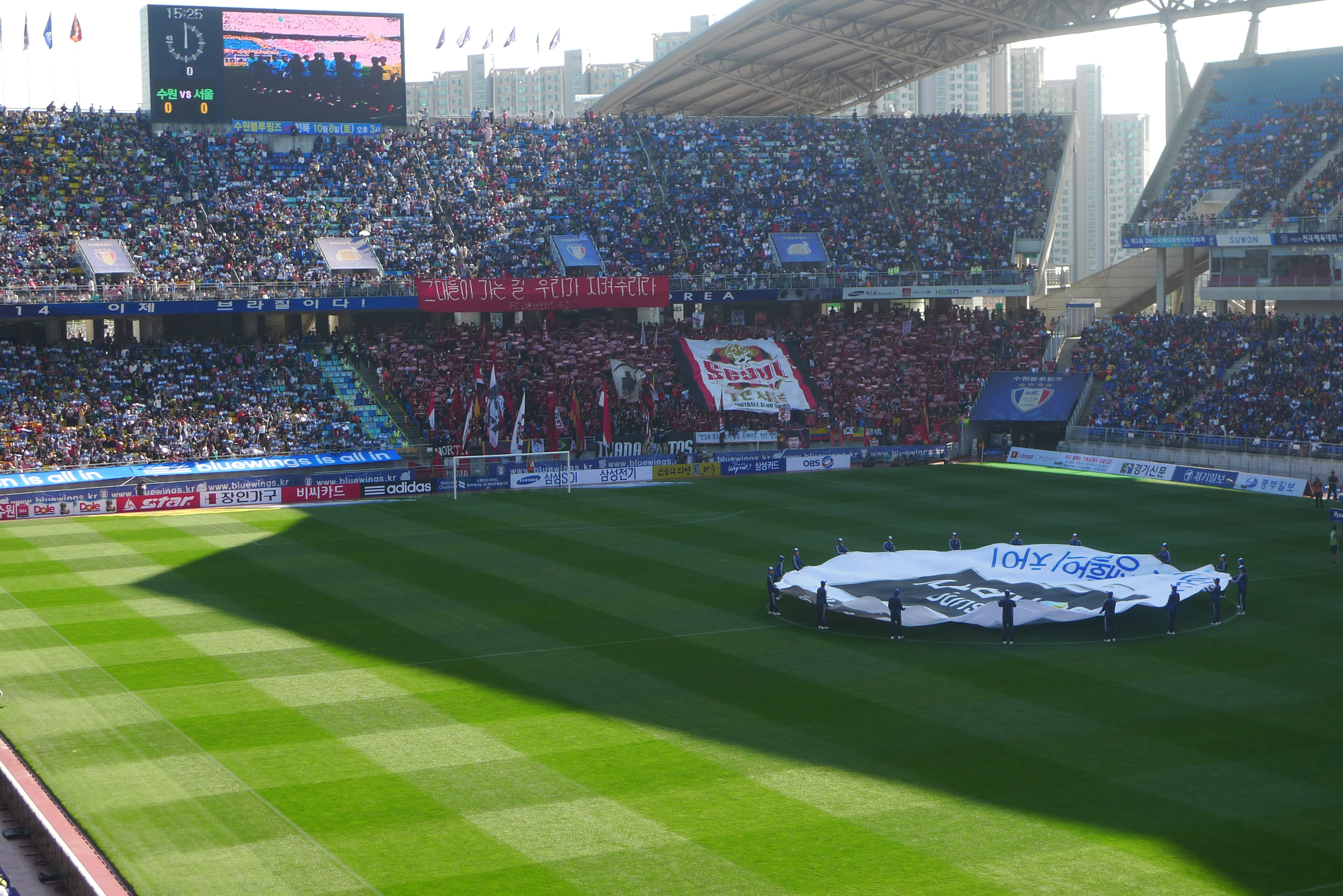 'S' Seat of the Suwon World Cup Stadium taken from 'N' Seat. (Taken during the match between Suwon and Seoul)